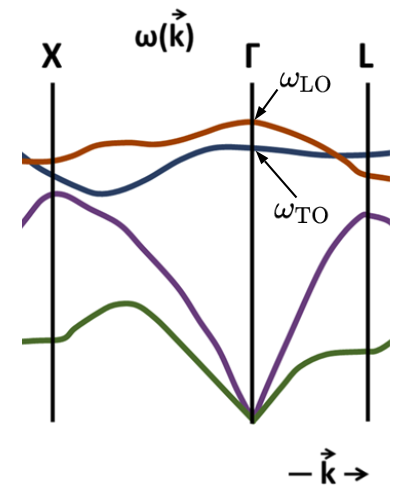 In the Lyddane–Sachs–Teller (LST) relation one considers the static and high-frequency dielectric constants, as well as the energies of the LO and TO phonons at gamma in the phonon disperion relation of a material. This image illustrates clearly these phonon energies for the example of GaAs, which allows one to better comprehend the LST relation.